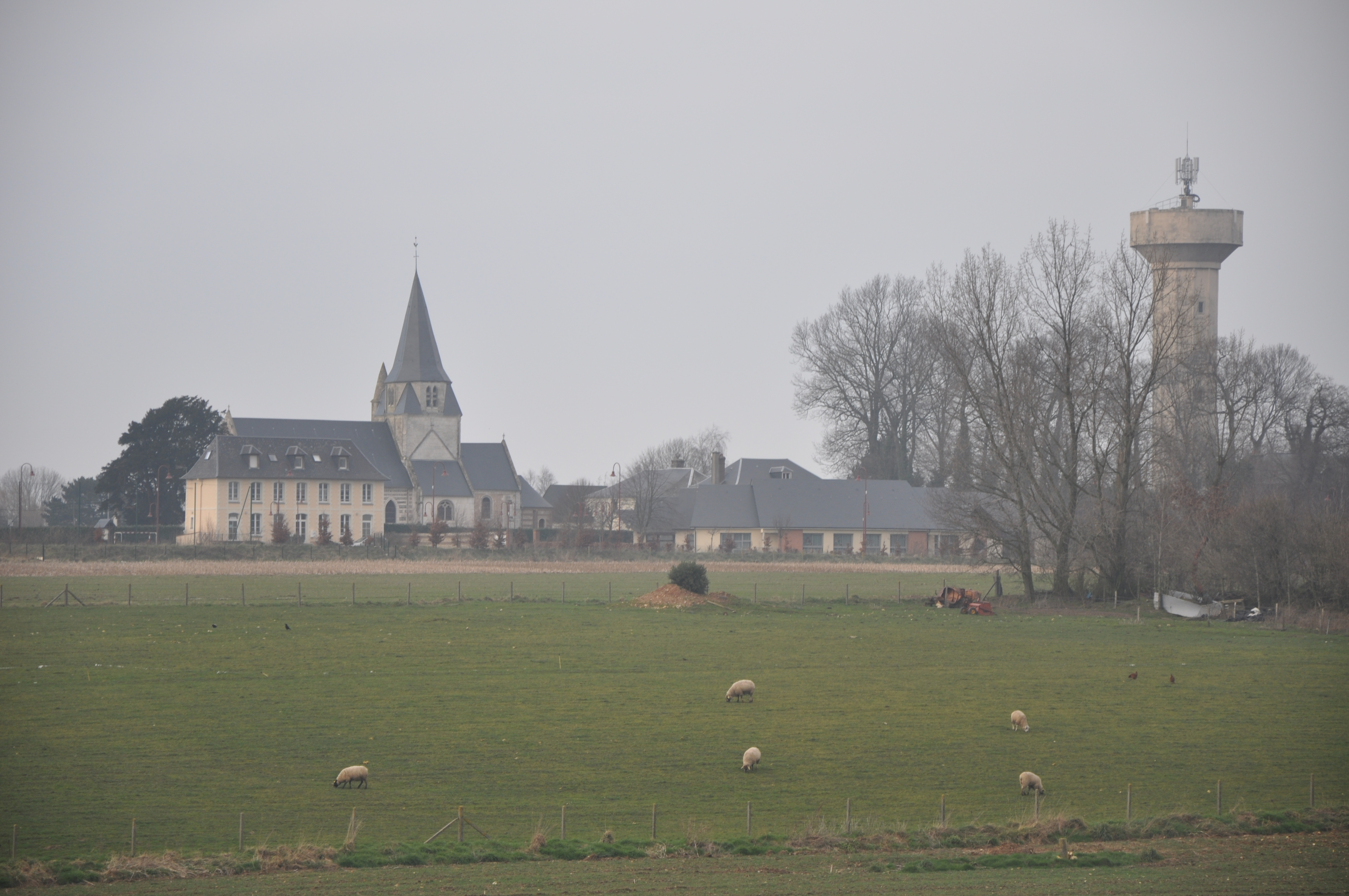 Church of Epretot (France, Normandy)